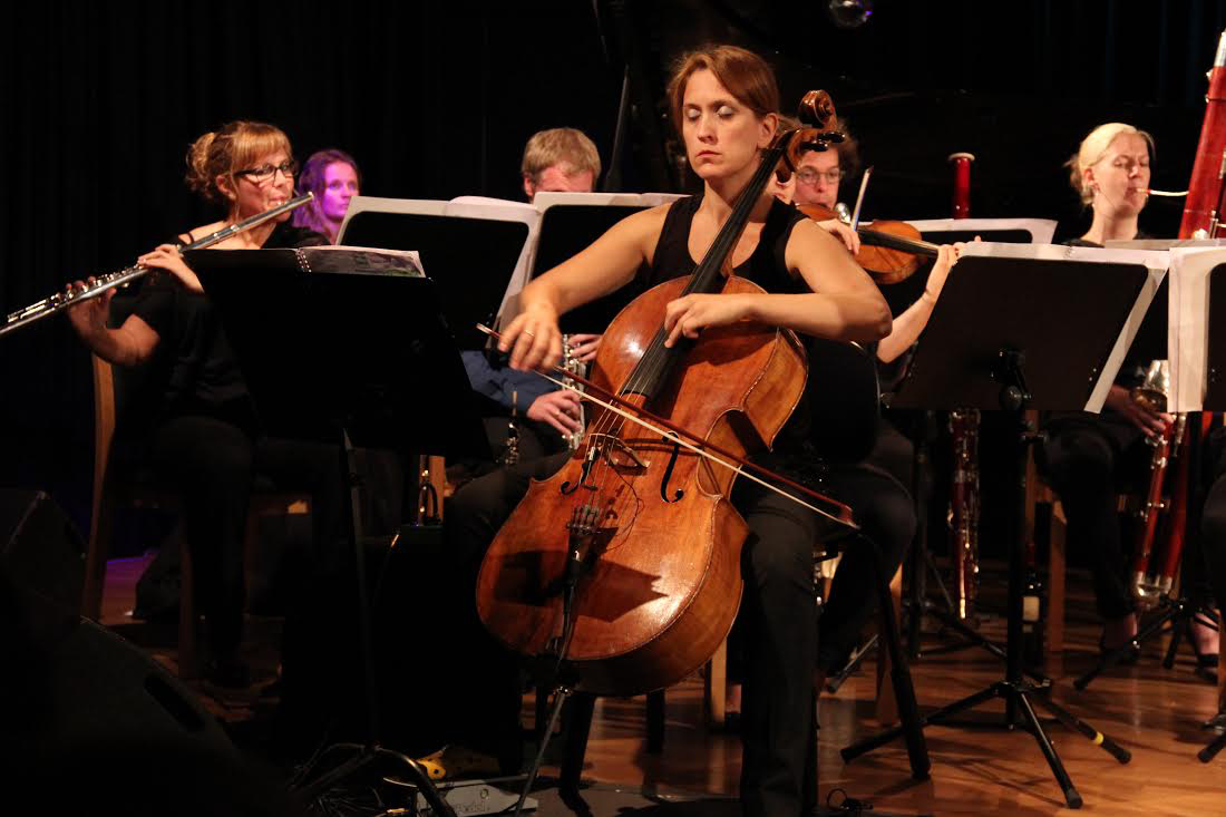 celloist and research fellow of the Norwegian Artistic Research Programme (Norwegian: Program for kunstnerisk utviklingsarbeid), Marianne Baudouin Lie, playing with the orchestra Trondheim Sinfonietta in August 2014, performing for the first time Lene Grenager's Khipukamayuk, as part of Lie's research project